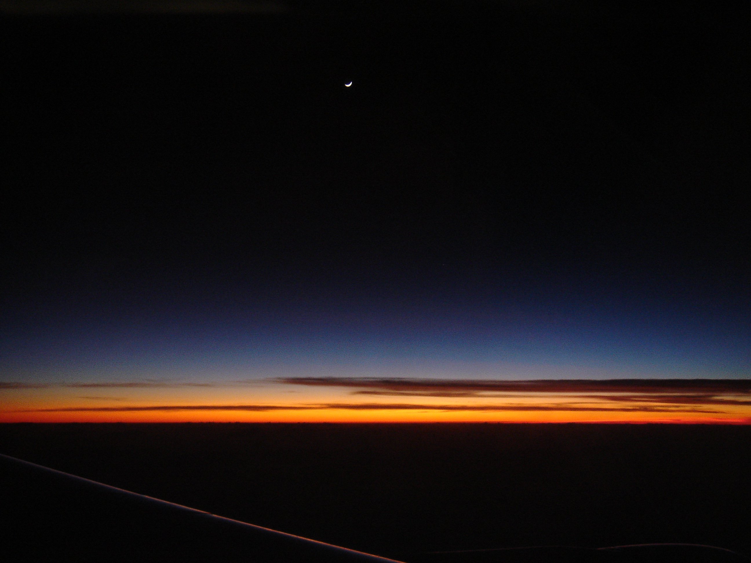 Dusk from window on board an Airbus A330.